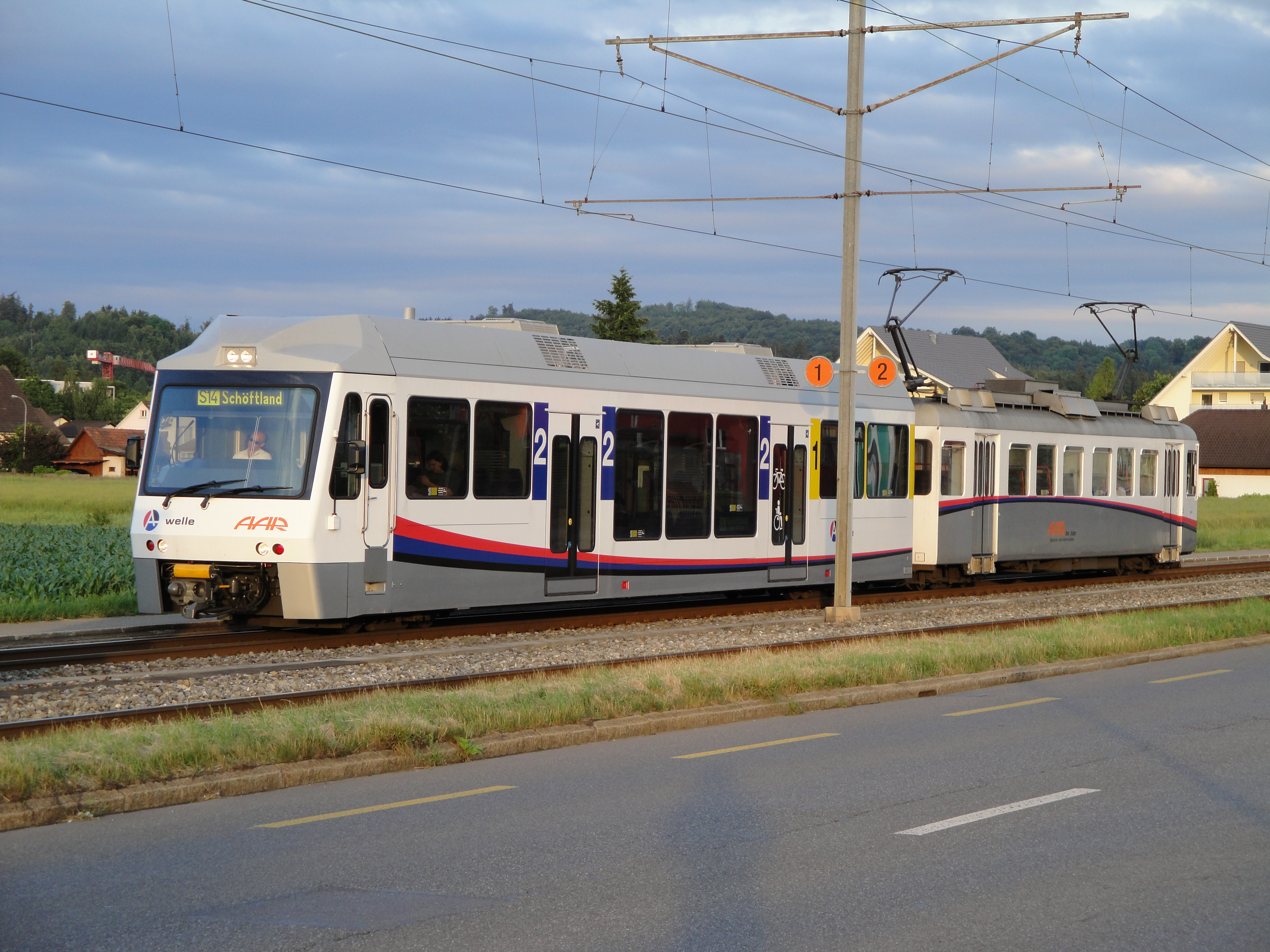 Be 4/4 + ABt train set of the argovian suburban railway line S14 Menziken - Aarau - Schöftland between Suhr and Aarau